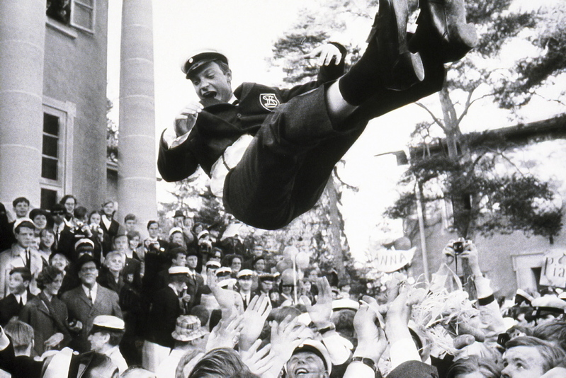 Swedish Crown Prince Carl Gustaf hoisted in the air at the celebration of his graduation at Sigtuna Boarding School, April 22, 1966 in Sigtuna.